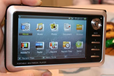 Cowon A3